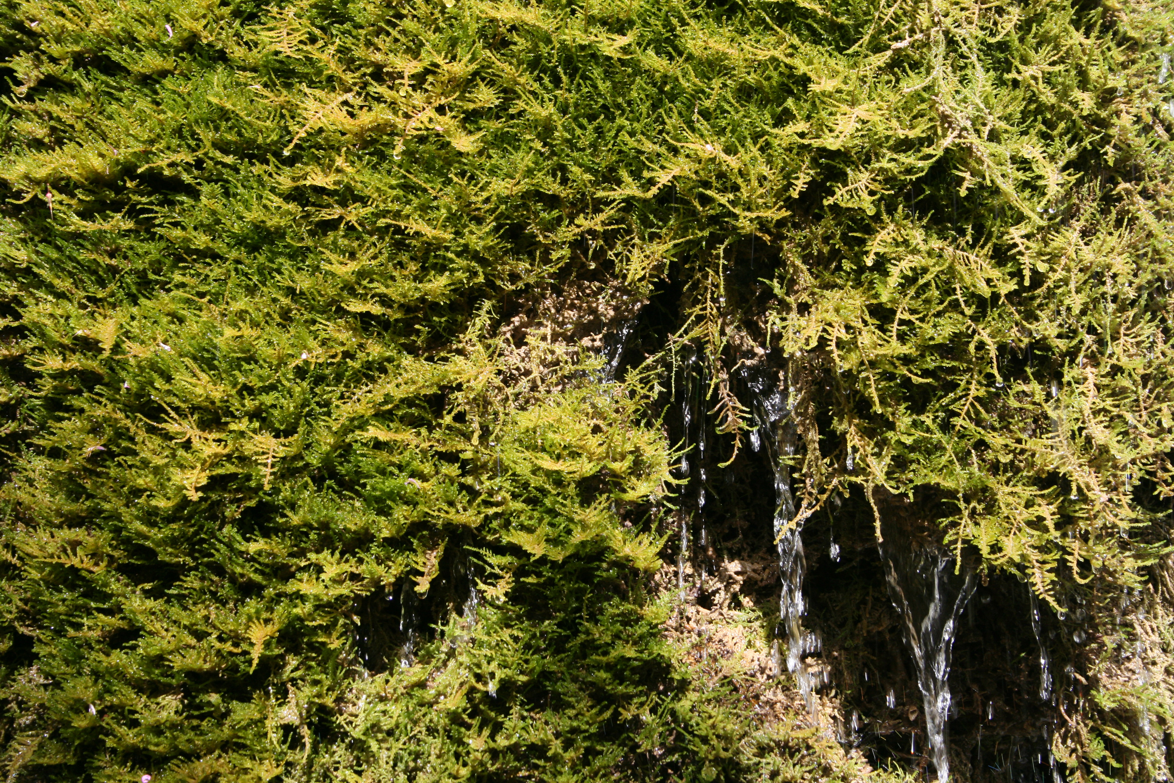 A moss, assimilating its carbon dioxide from mineral spring water (ex. Karstwater, saturated with calcium carbonate). As a result, part of the mineral precipitates chemically. Plant and mineral form to a crust, a porous, stable and extremely lightweight rock sediment, which may grow to become huge elivated deposits. The plant grows anew on the crust.